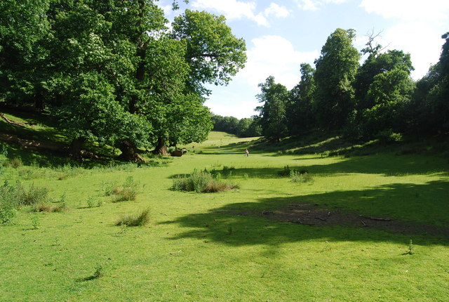 Dry Valley, Knole Park This is a relict dry valley left over from the end of the ice age, when meltwater channels cut the valley.